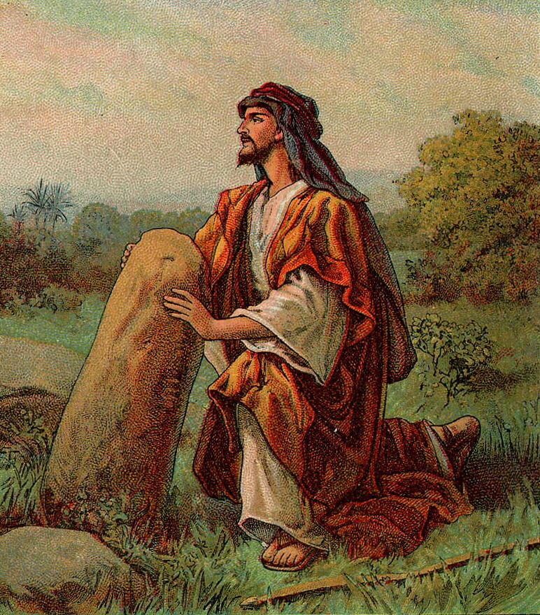 Jacob's Vision and God's Promise, as in Genesis 28:1-5, 10-22, illustration from a Bible card published 1906 by the Providence Lithograph Company